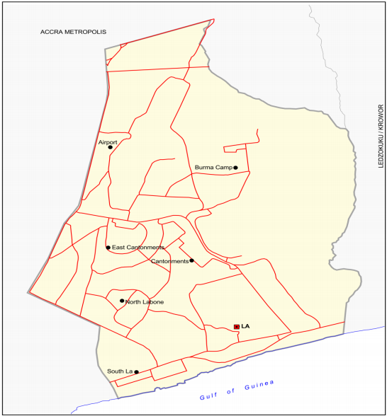 La-Dade-Kotopon municipal district administrative borders